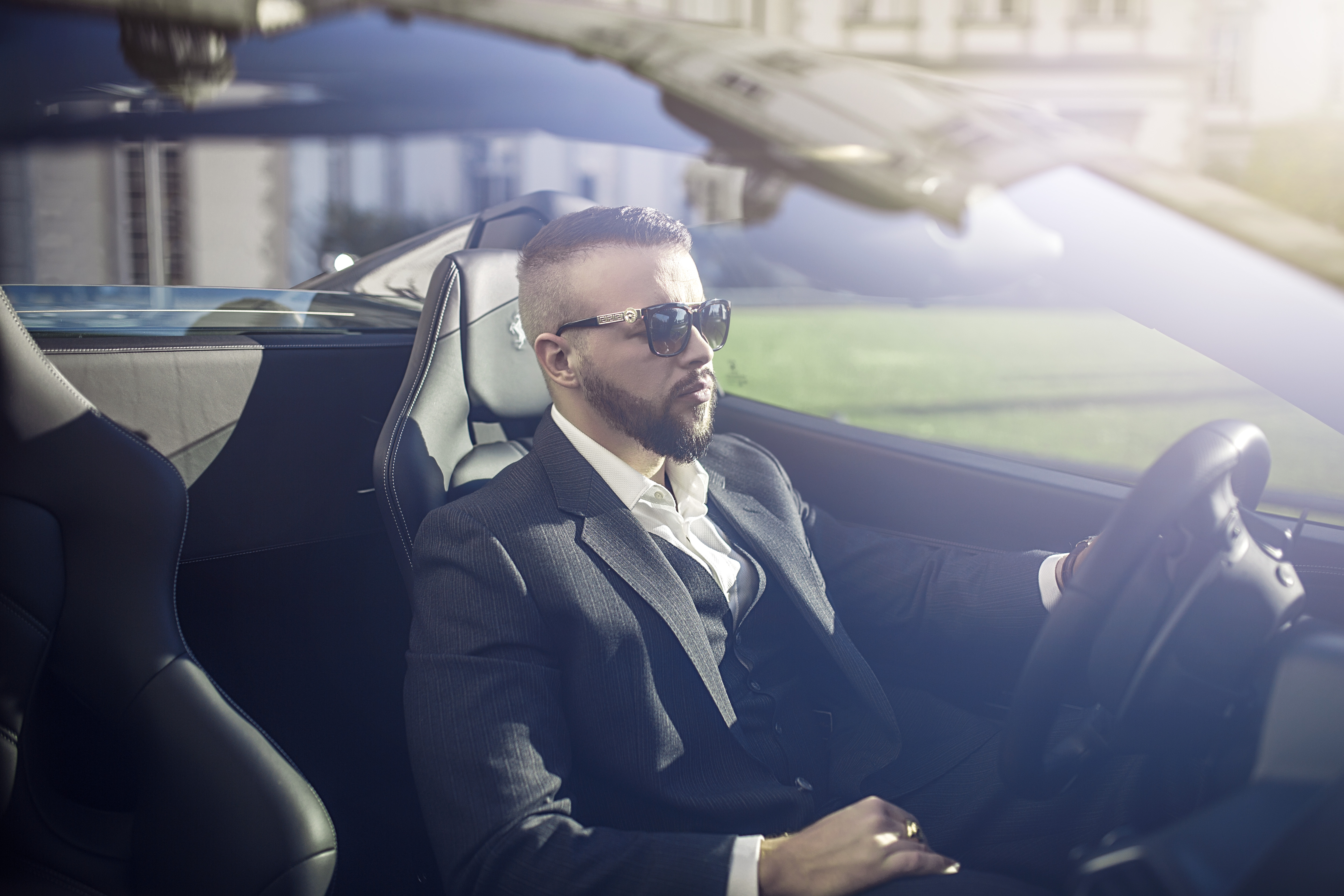 Pressefoto Kollegahs (2015)